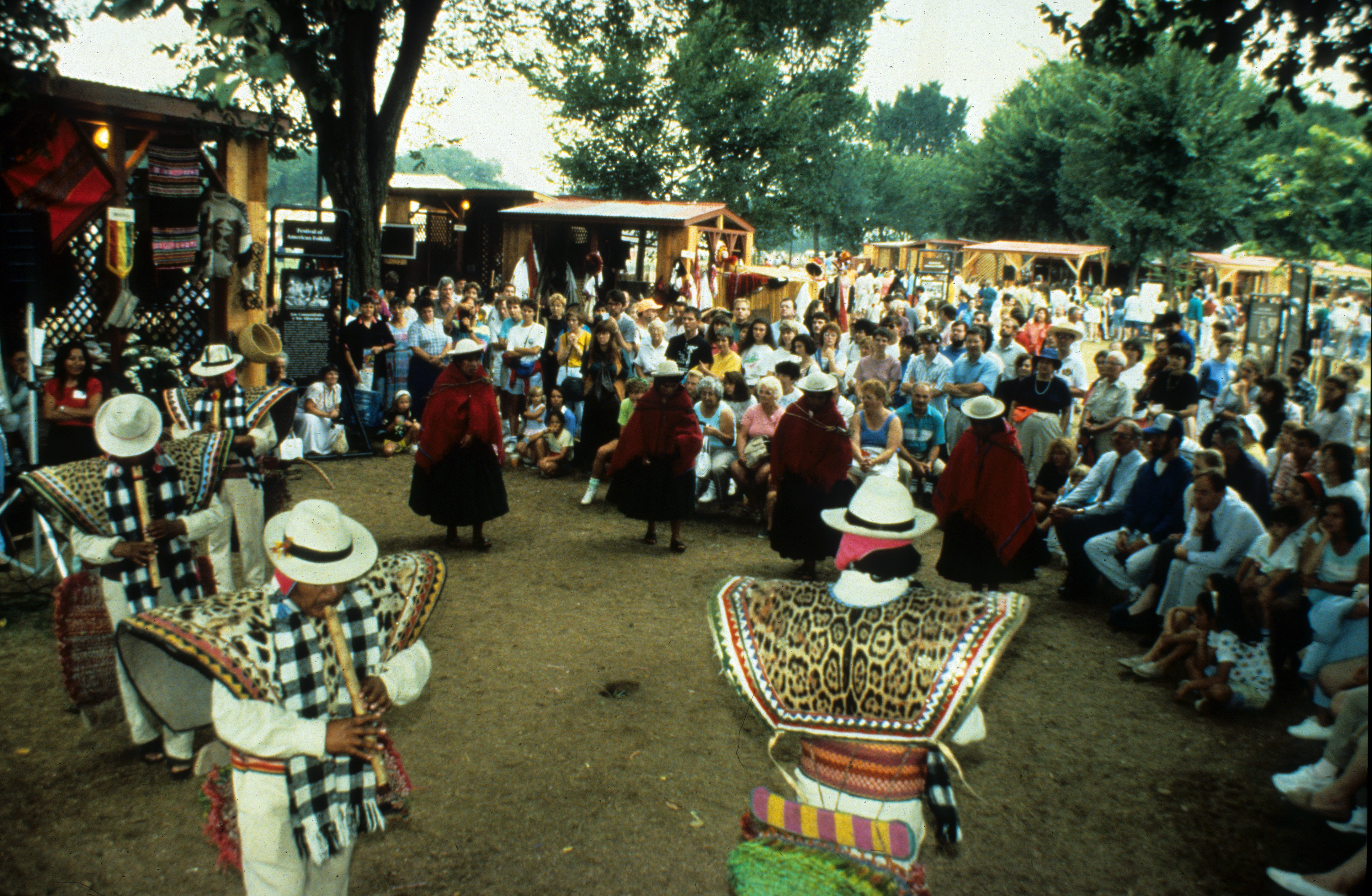 Description: Taquile musicians from Peru perform in the "Land in Native American Cultures" program at the 1991 Festival of American Folklife held on the National Mall, Washington, D.C. Creator/Photographer: Unidentified photographer Medium: Medium unknown Culture: Peruvian Geography: USA Date: 1991 Repository: Rinzler Folklife Archives and Collections Accession number: 91-21258